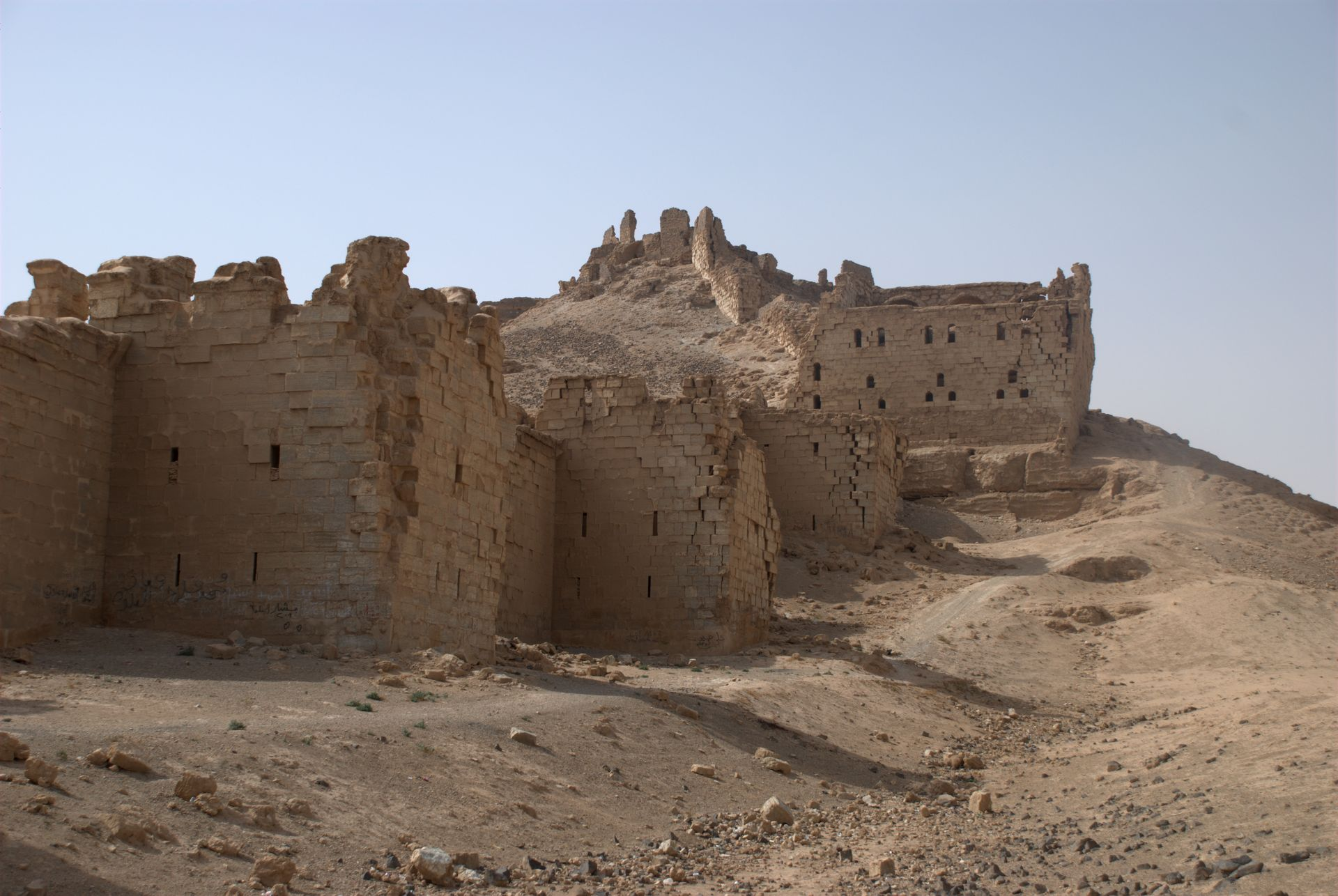 Halabiya, Zenobia, Syria. North gate from outside and praetorium